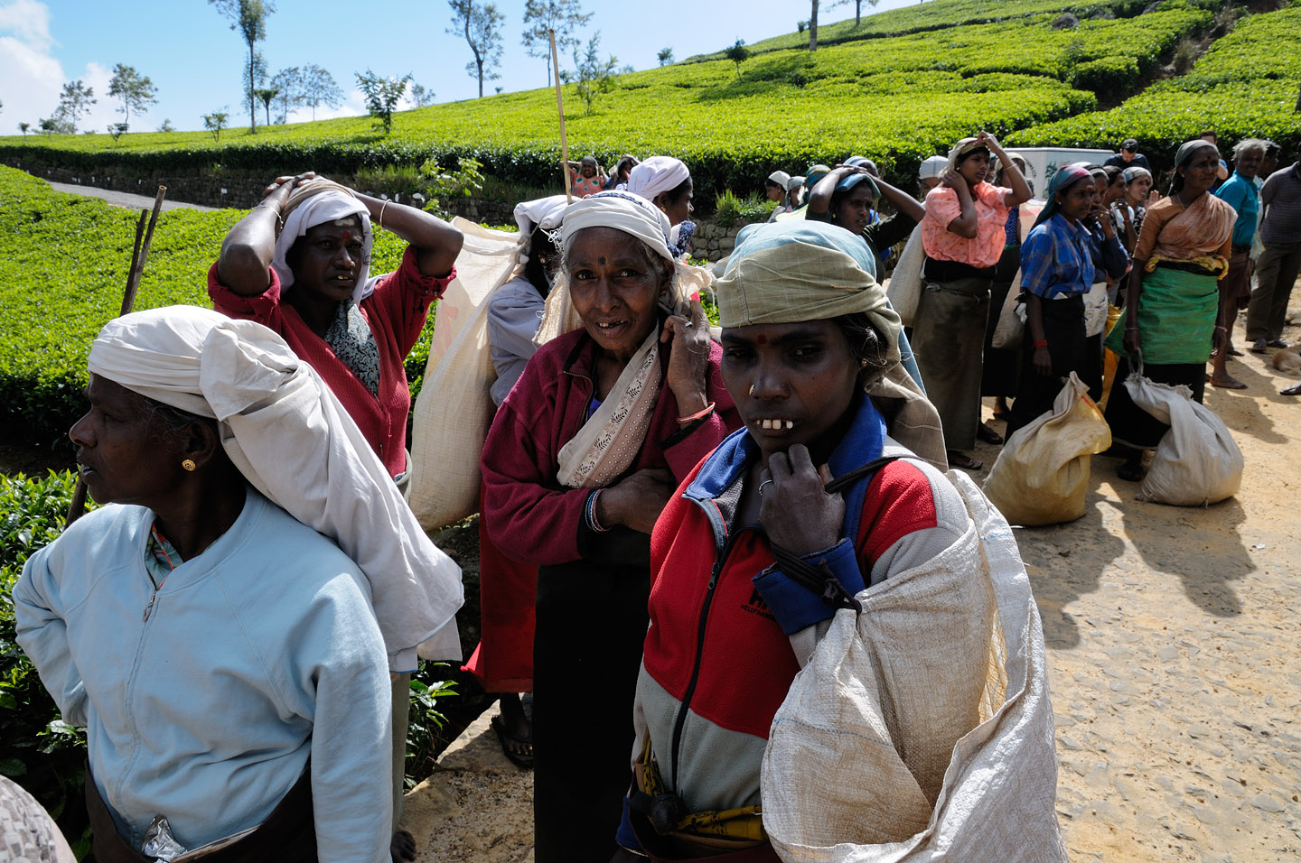 Female workers of a tea plantation in Sri Lanka waiting to get paid for the leafs they picked and put in these bags.